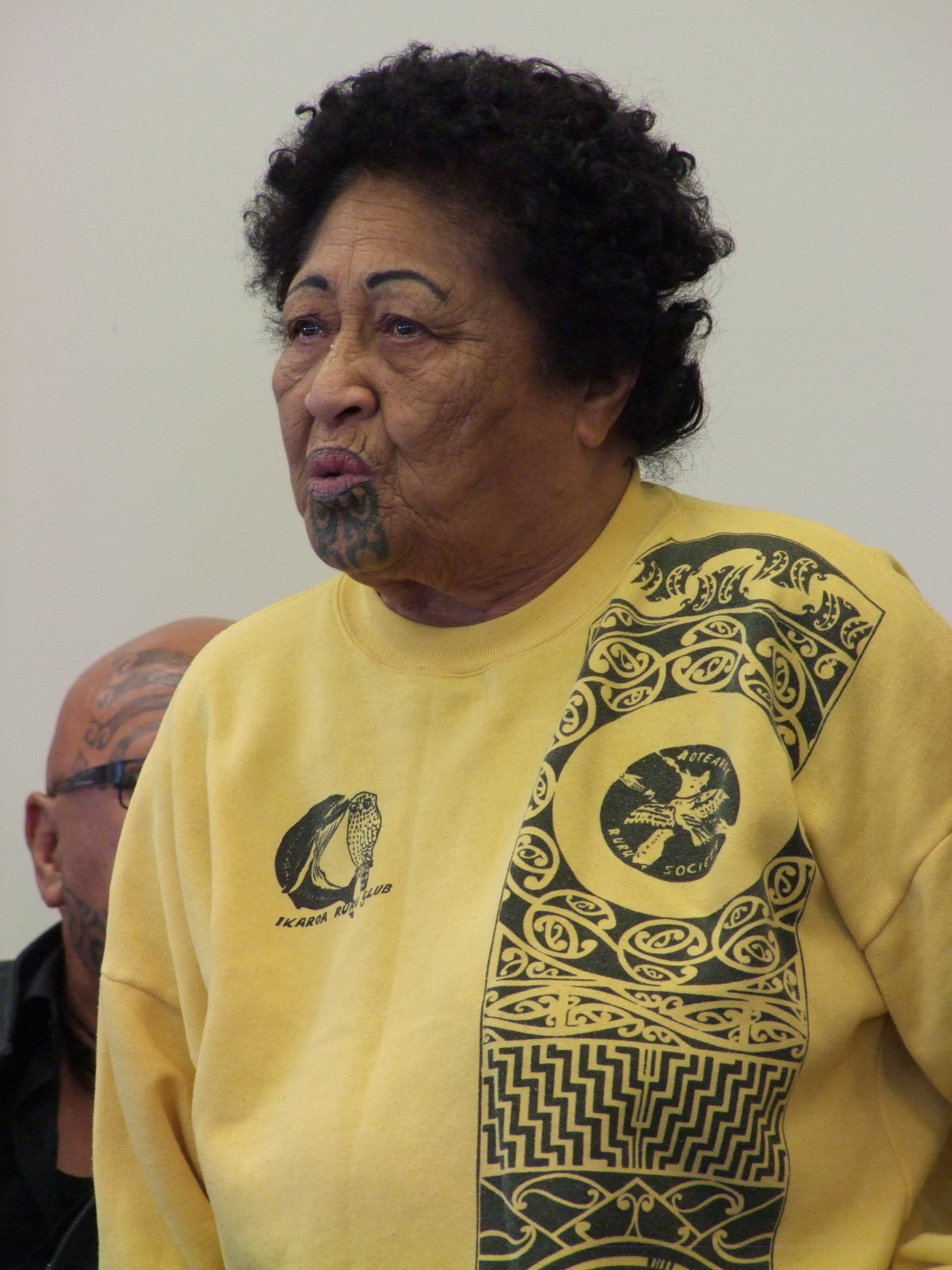 Portrait of Mere Broughton 12 June 2015.